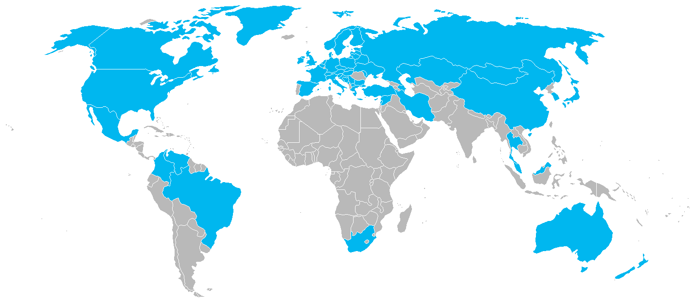 Participation nations Winter Universiade 2011